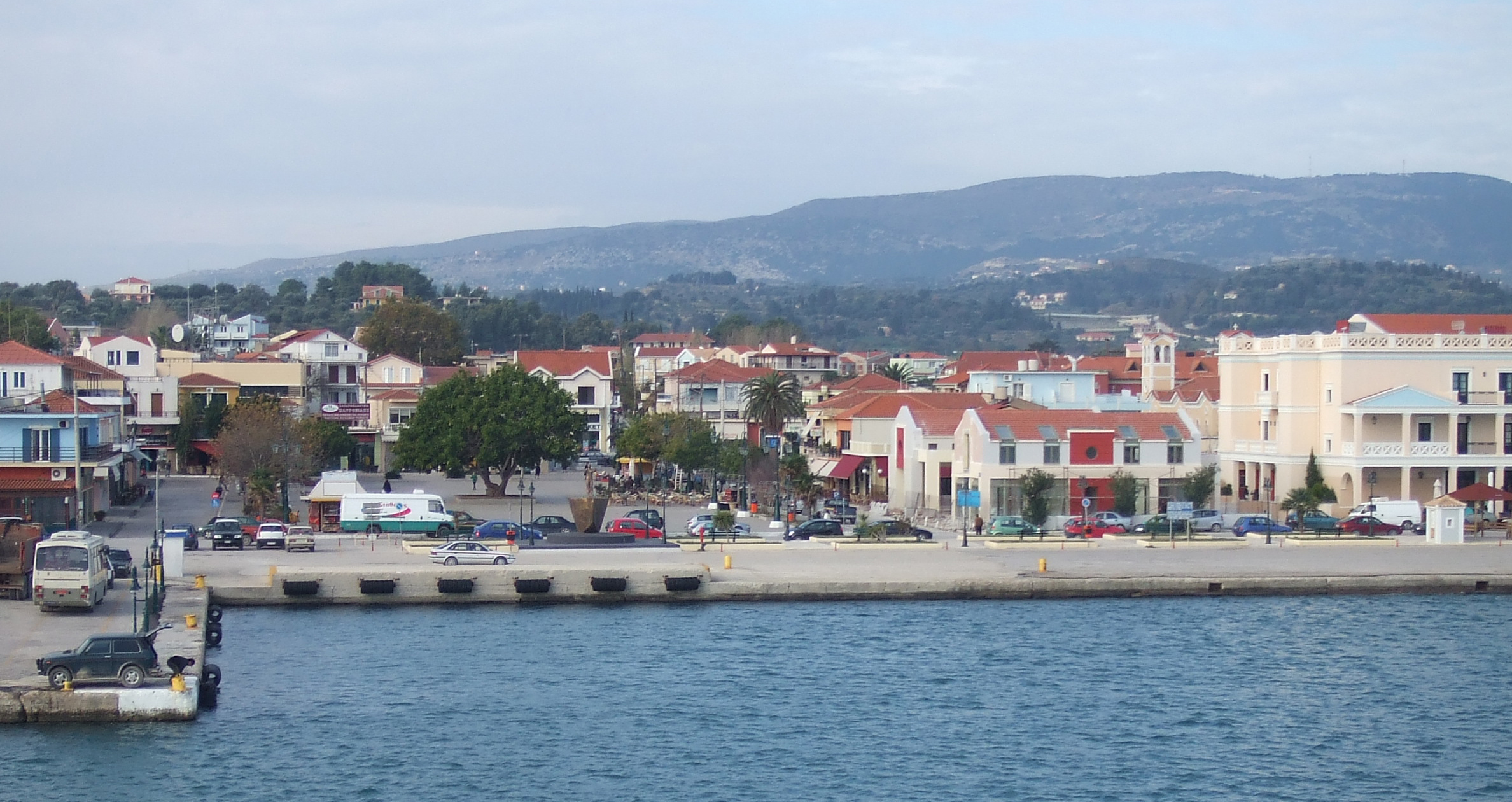 Lixouri from the harbour.